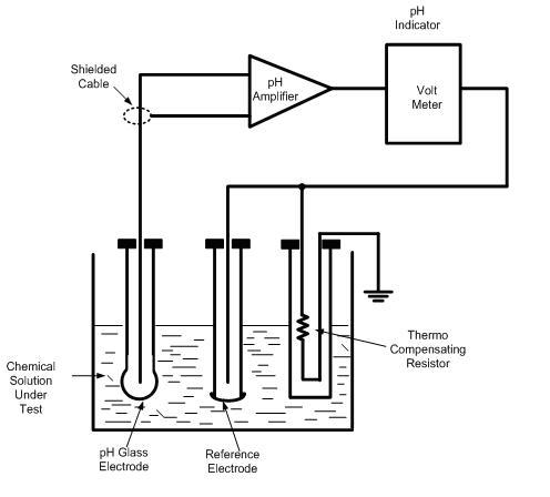 Show ph circuit